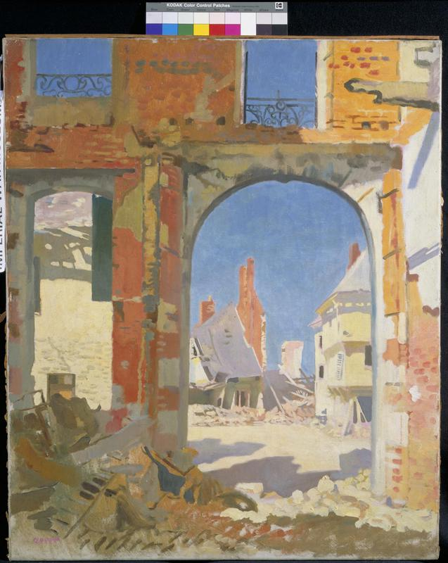 The Girls College, Peronne image: A view of the remains of the Girls College, Peronne. There is an archway (which appears in 'Adam and Eve at Peronne, IWM:ART 2981) and heap of rubble in the foreground, and beyond this several bomb-damaged houses.